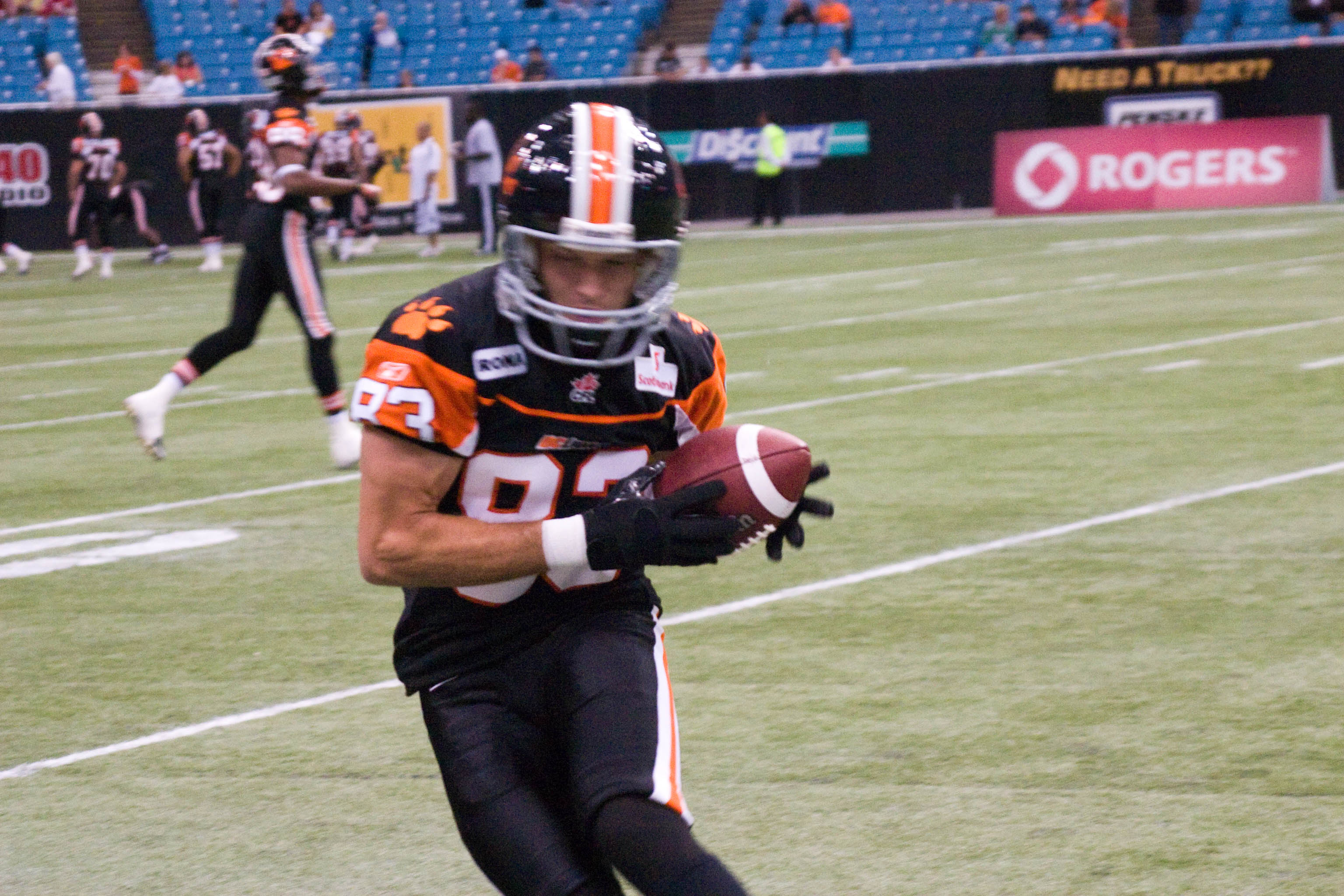 Greg Hetherington catching a pass on August 8, 2009.